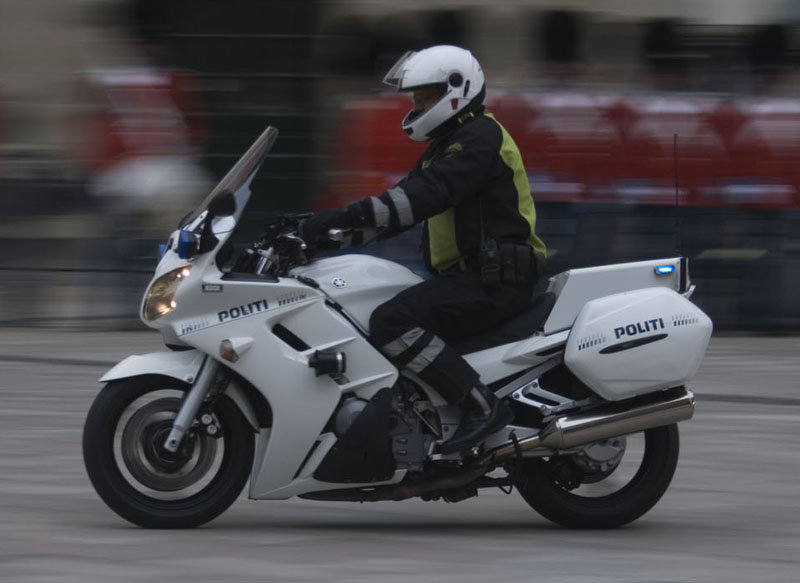 Yamaha FJ1300/A motorcycle used by the danish policeDansk: En af dansk politis Yamaha FJ1300/A motorcykler